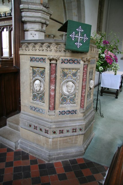 St.John the Baptist's pulpit, near to Penshurst, Kent, Great Britain. Victorian pulpit with the four Evangelists in St.John the Baptist's church